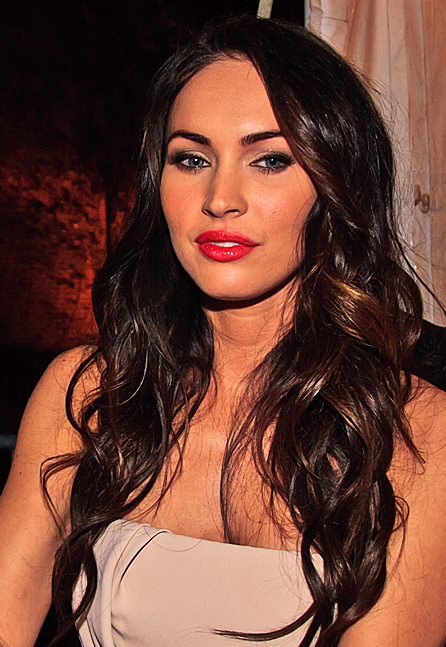 Megan Fox at the 2010 Toronto International Film Festival.